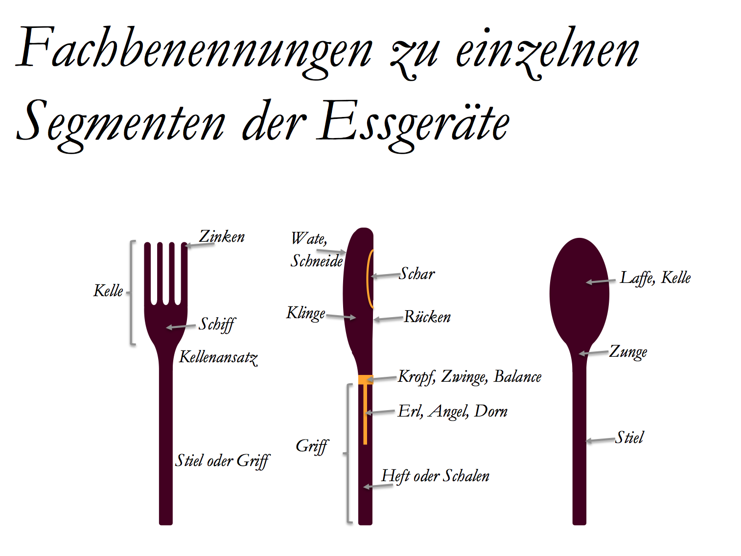 Technical terms for elements of cutlery objects